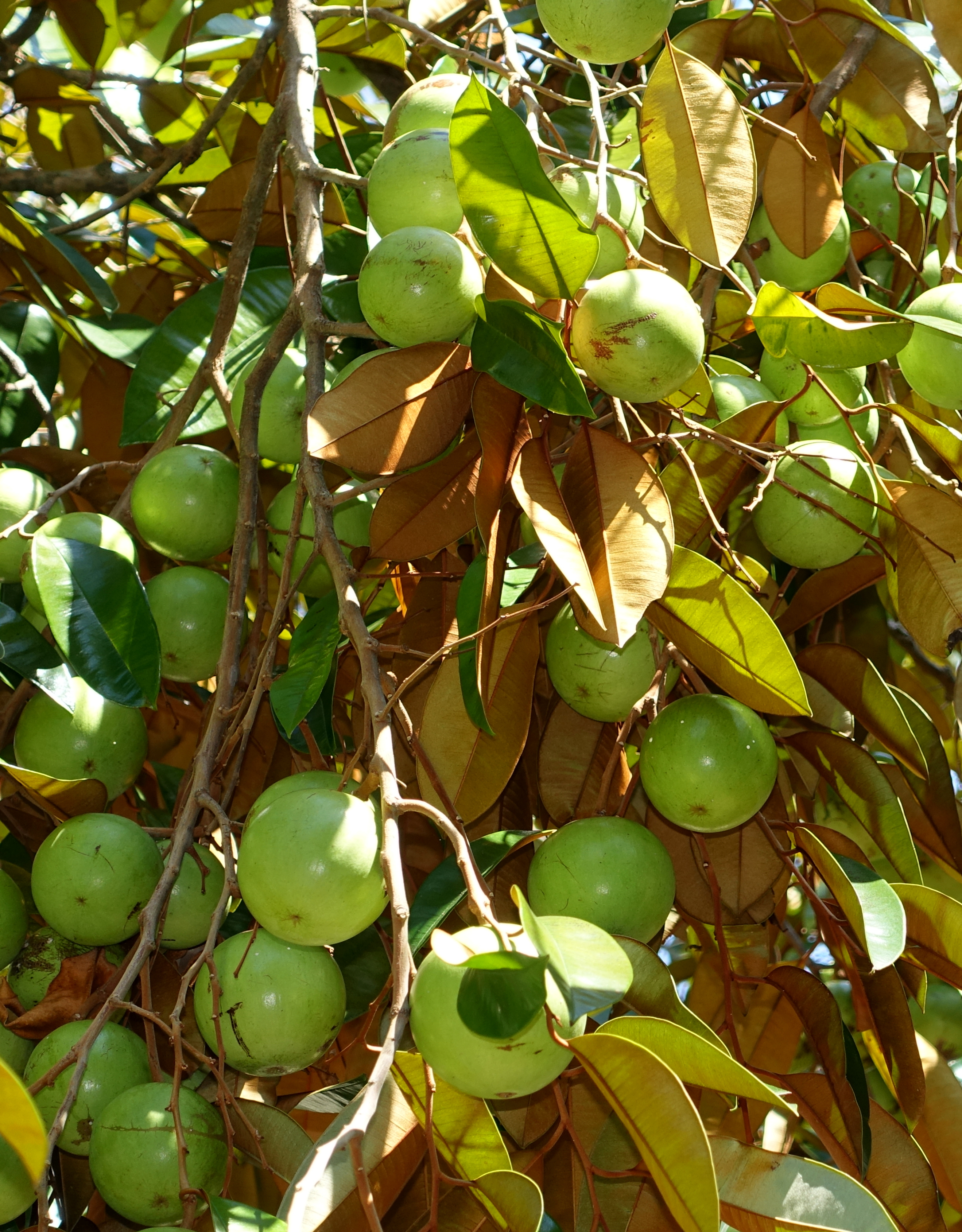 Plant specimen in the Fruit and Spice Park - Homestead, Florida, USA.